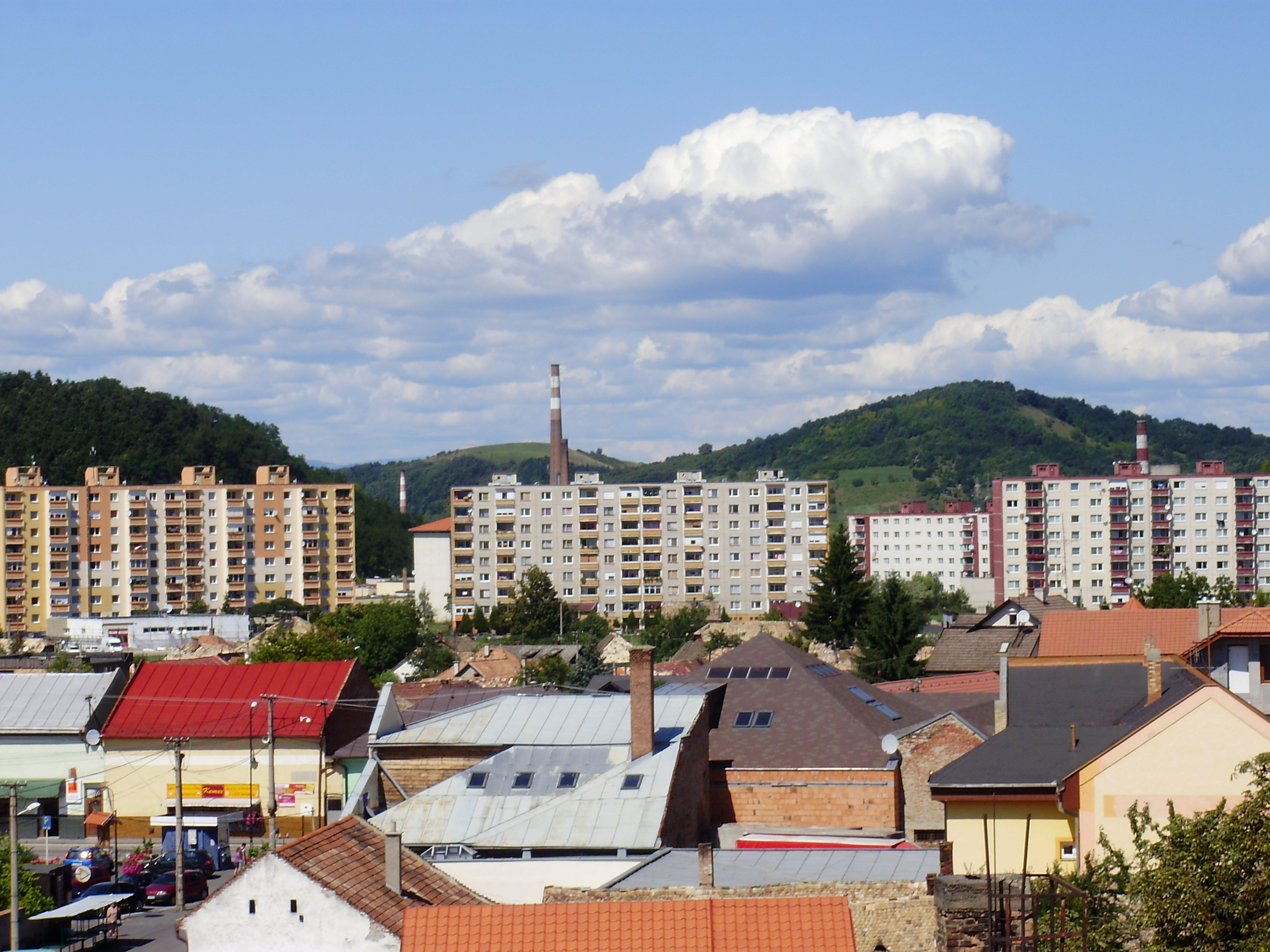 Filakovo panorama